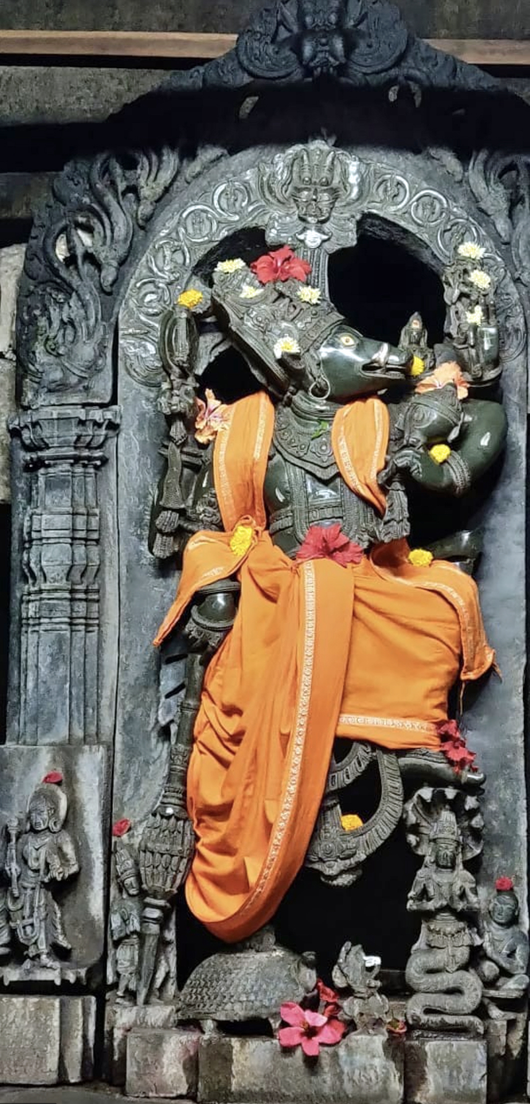 The Hindu go Vishnu in his incarnation as Varah.